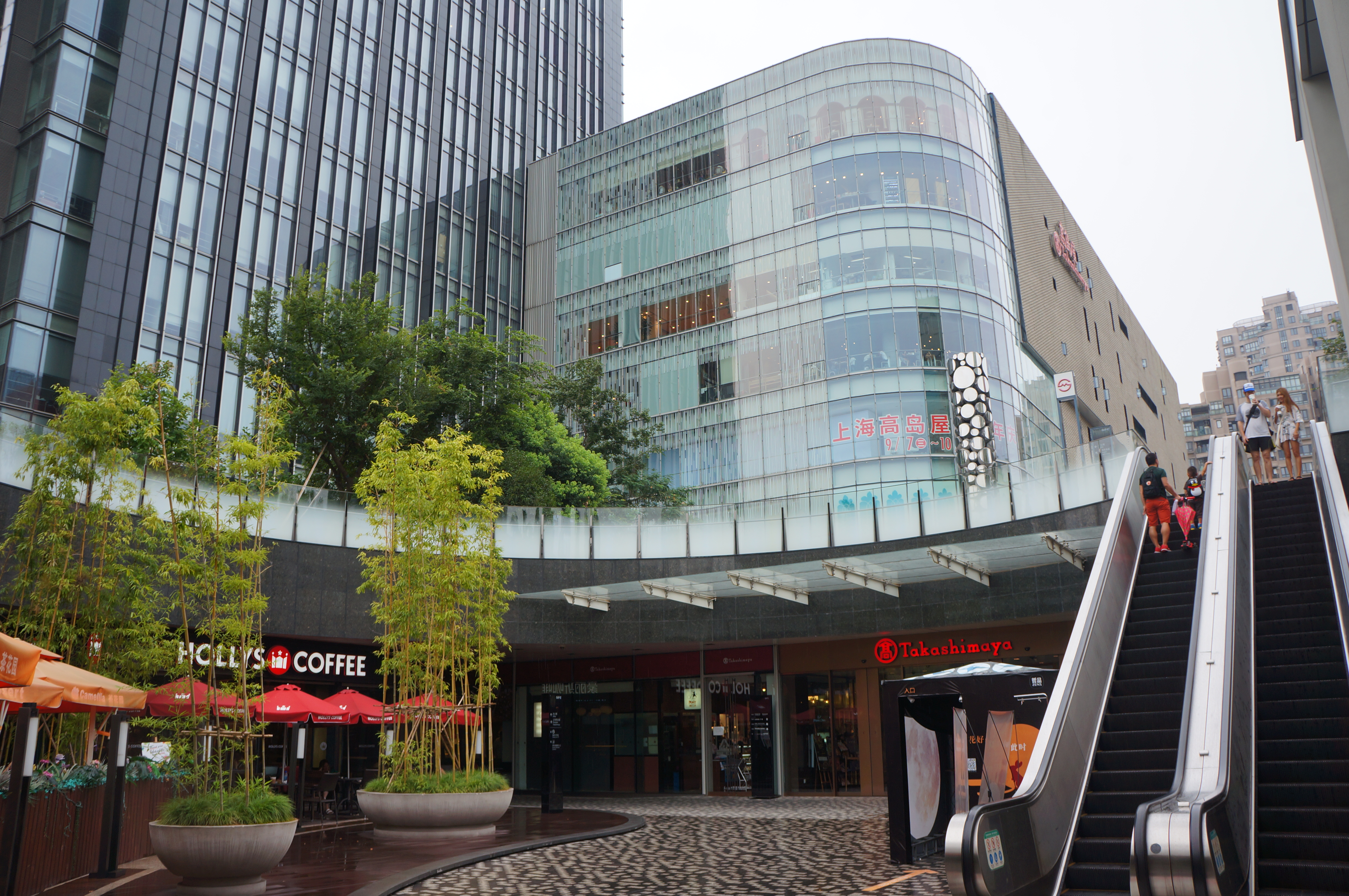 201609 Gate of Shanghai Takashimaya on -1F